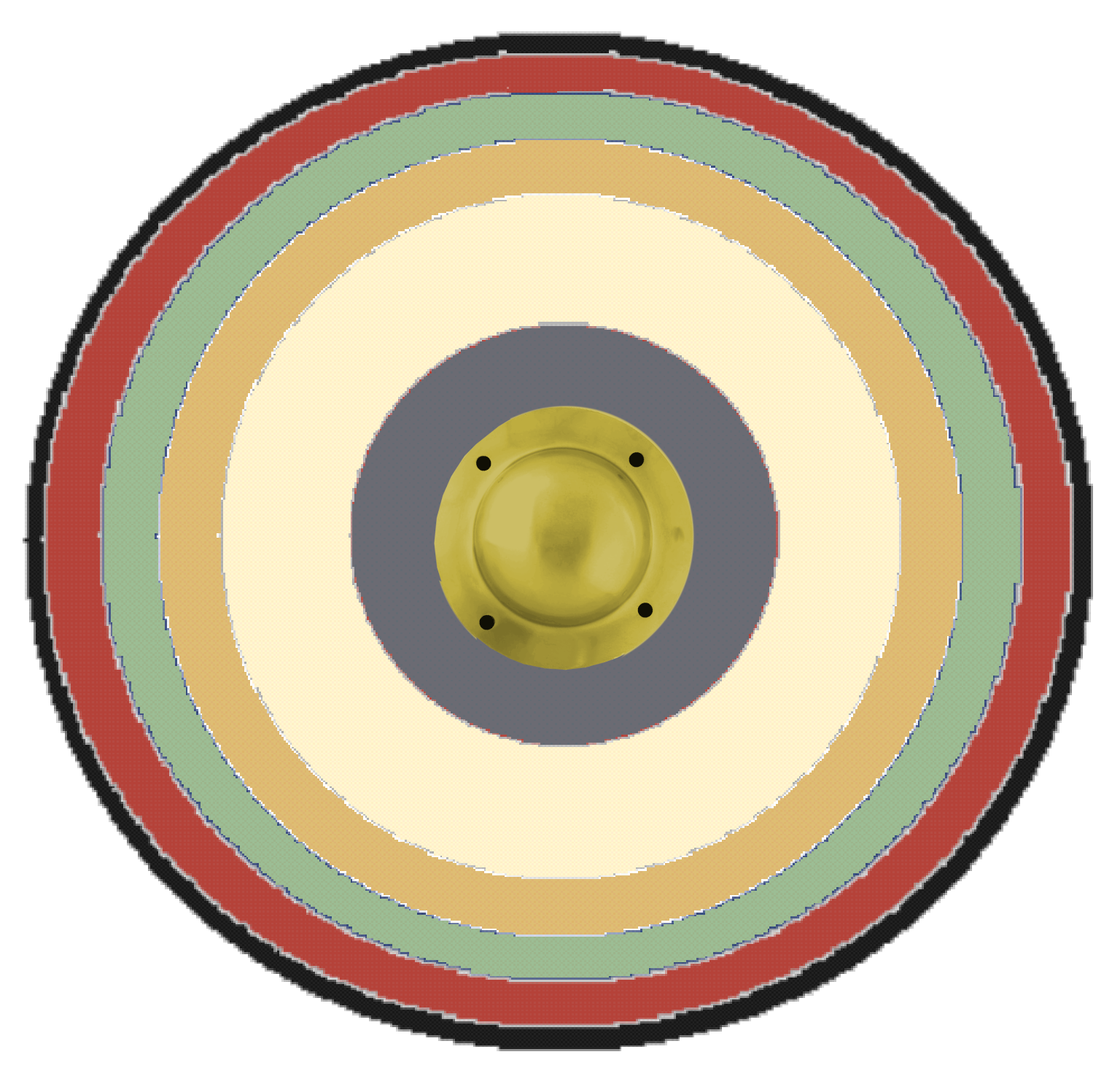 Shield pattern o.t. Brisigavi seniores, listed as one of auxilia palatina units in the Magister Peditum's infantry roster; Notitia Dignitatum, 5 th century (Bodleian Manuscript).